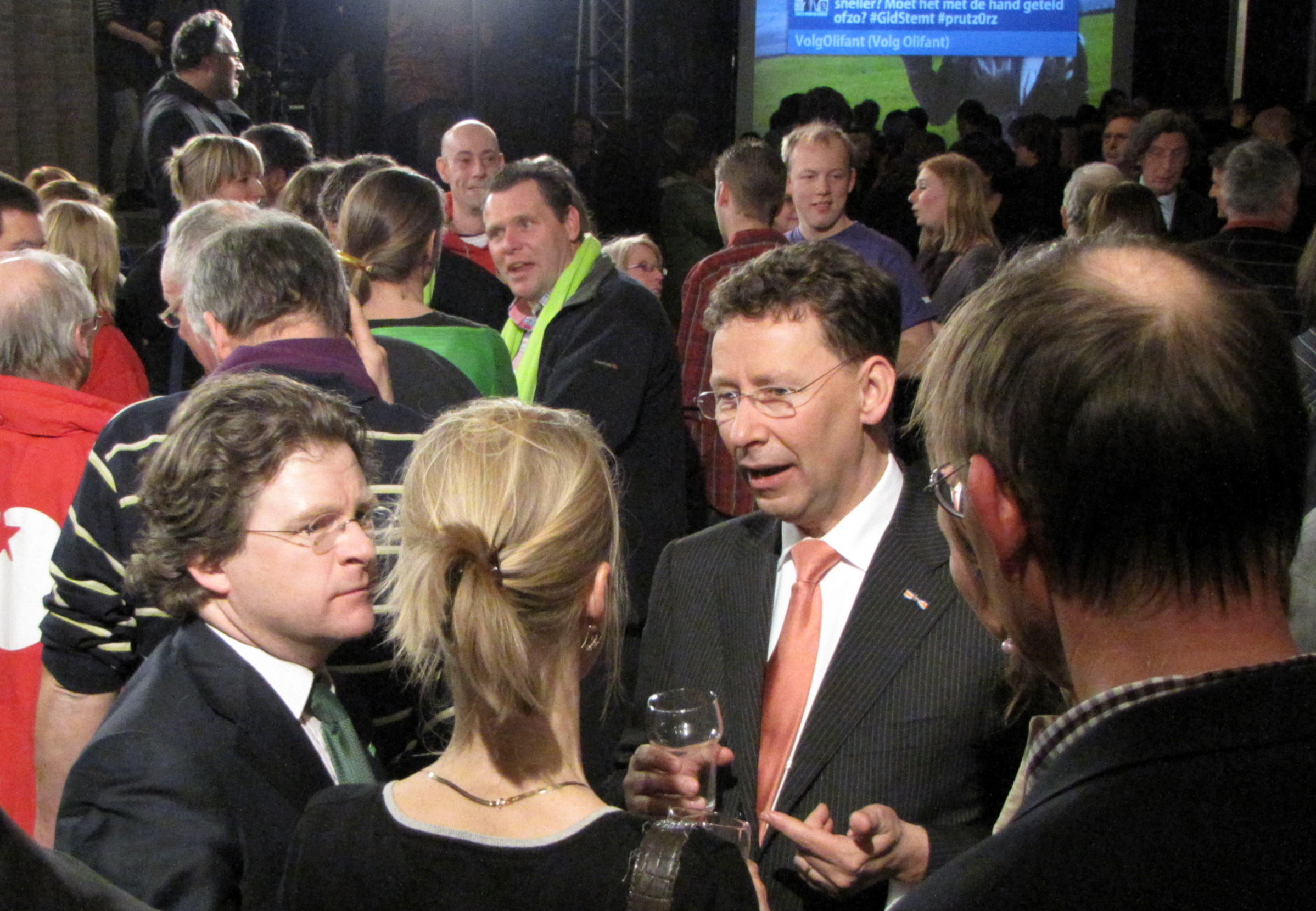 House of the Province Gelderland, Arnhem. Elections evening province parliament in 2011.